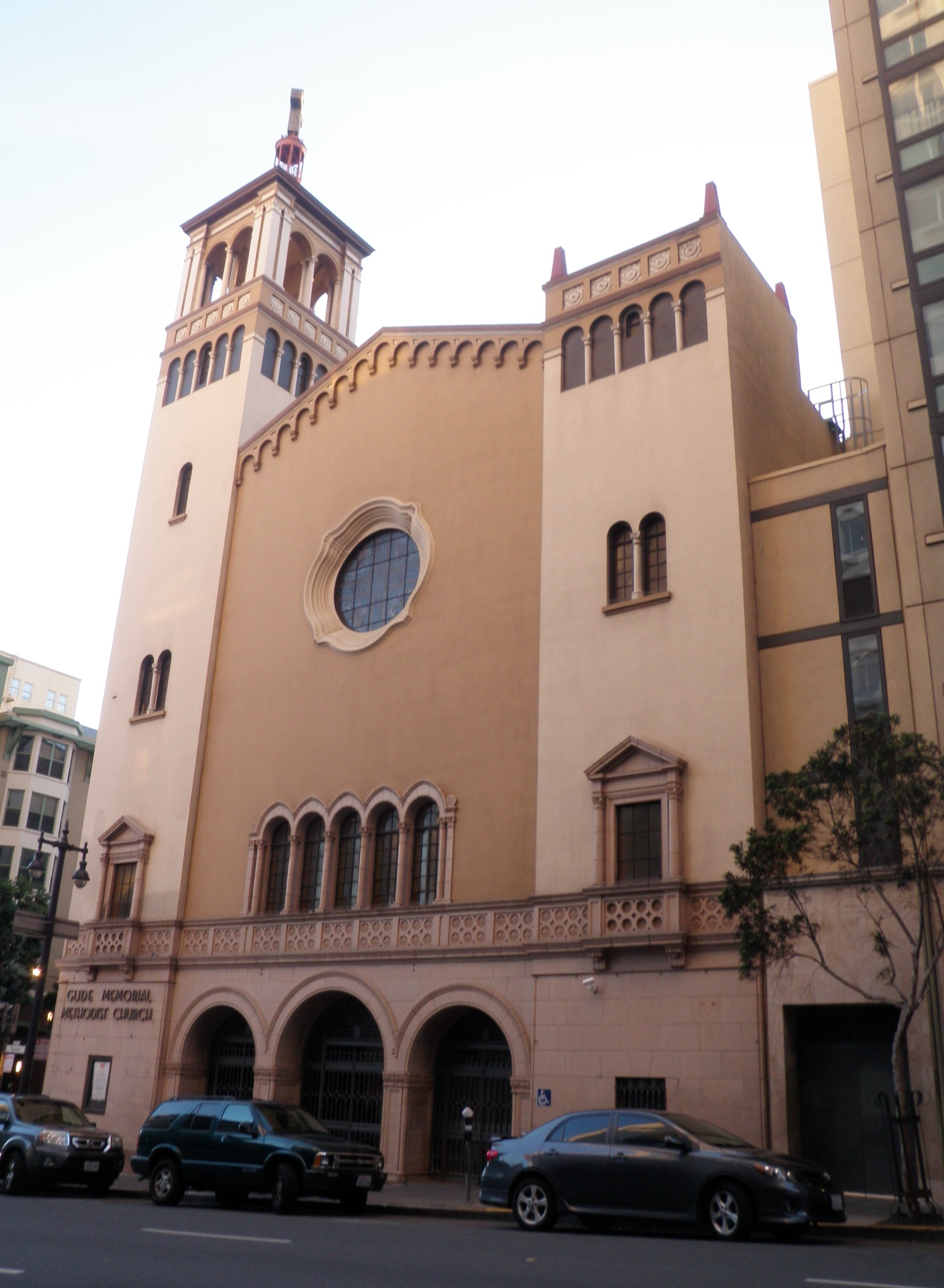 Glide Memorial Church, taken February, 2016. Afternoon with front doors of church closed. View from across Taylor Street.